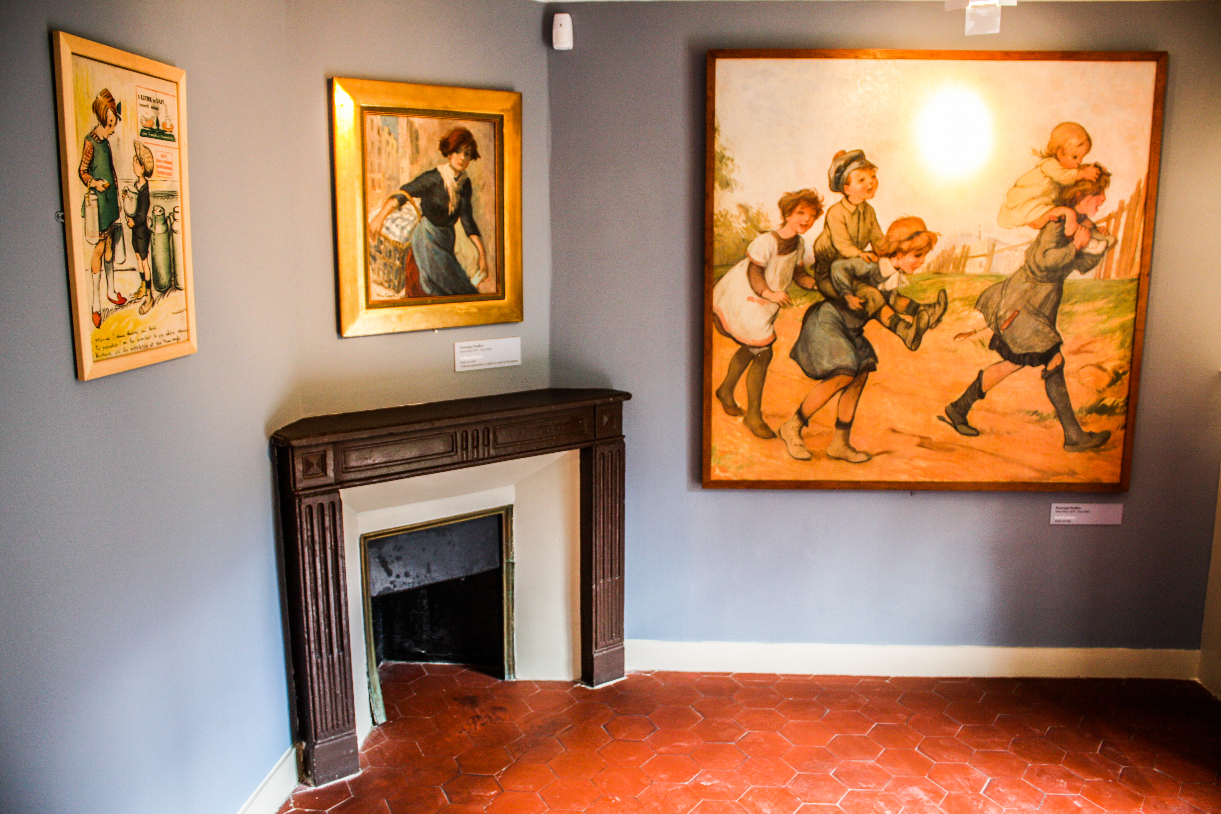 Montmartre Museum, Paris.